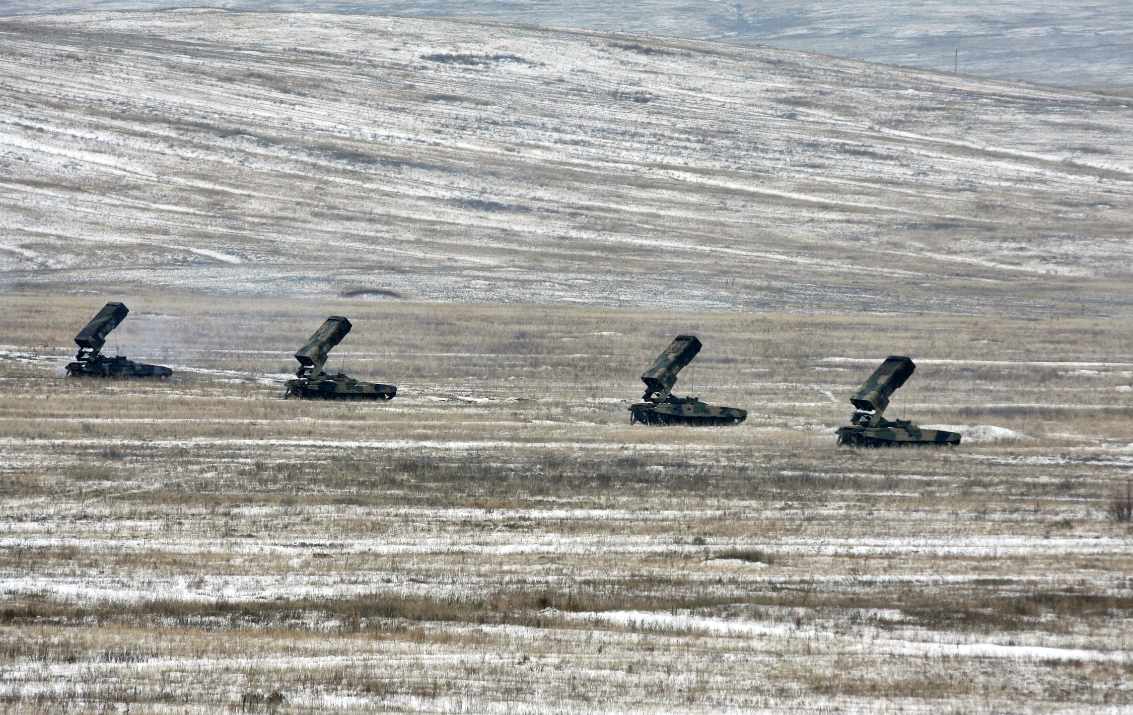 TOS-1A multiple rocket launchers before starting to fire.